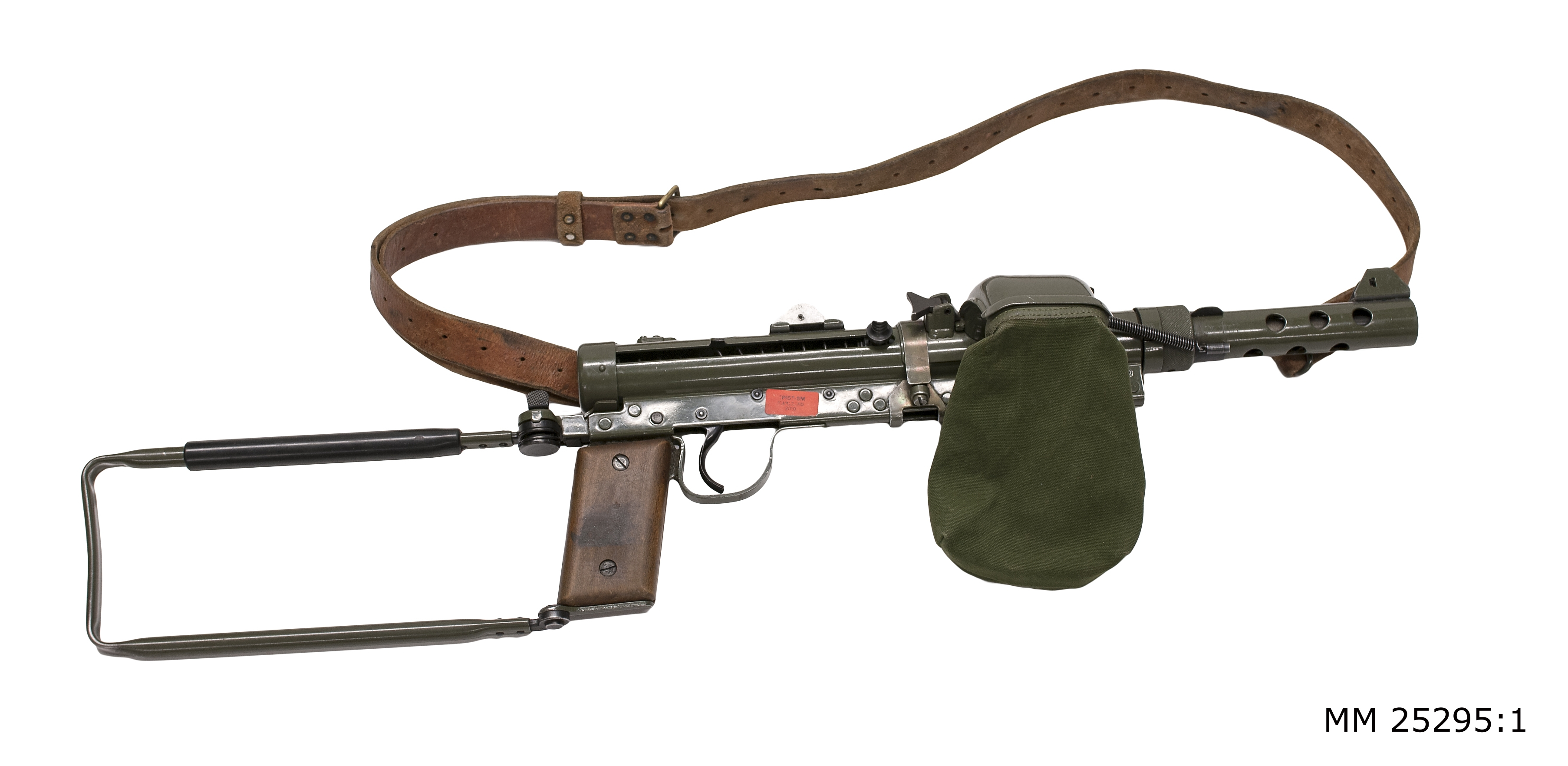 A Carl Gustav m/45B submachine gun with a brass catcher, from The Swedish Navy Museum collections (MM 25295:1).